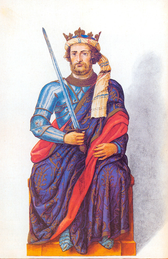 Portrait of king Pedro I of Castile, king of Castile and Leon (1367–1369. Image from the Libro de retratos de los Reyes del Alcázar de Segovia.